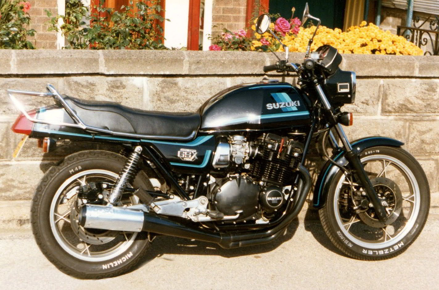 Suzuki GSX1100ET 1982 model with non-standard black engine finish and aftermarket exhaust system